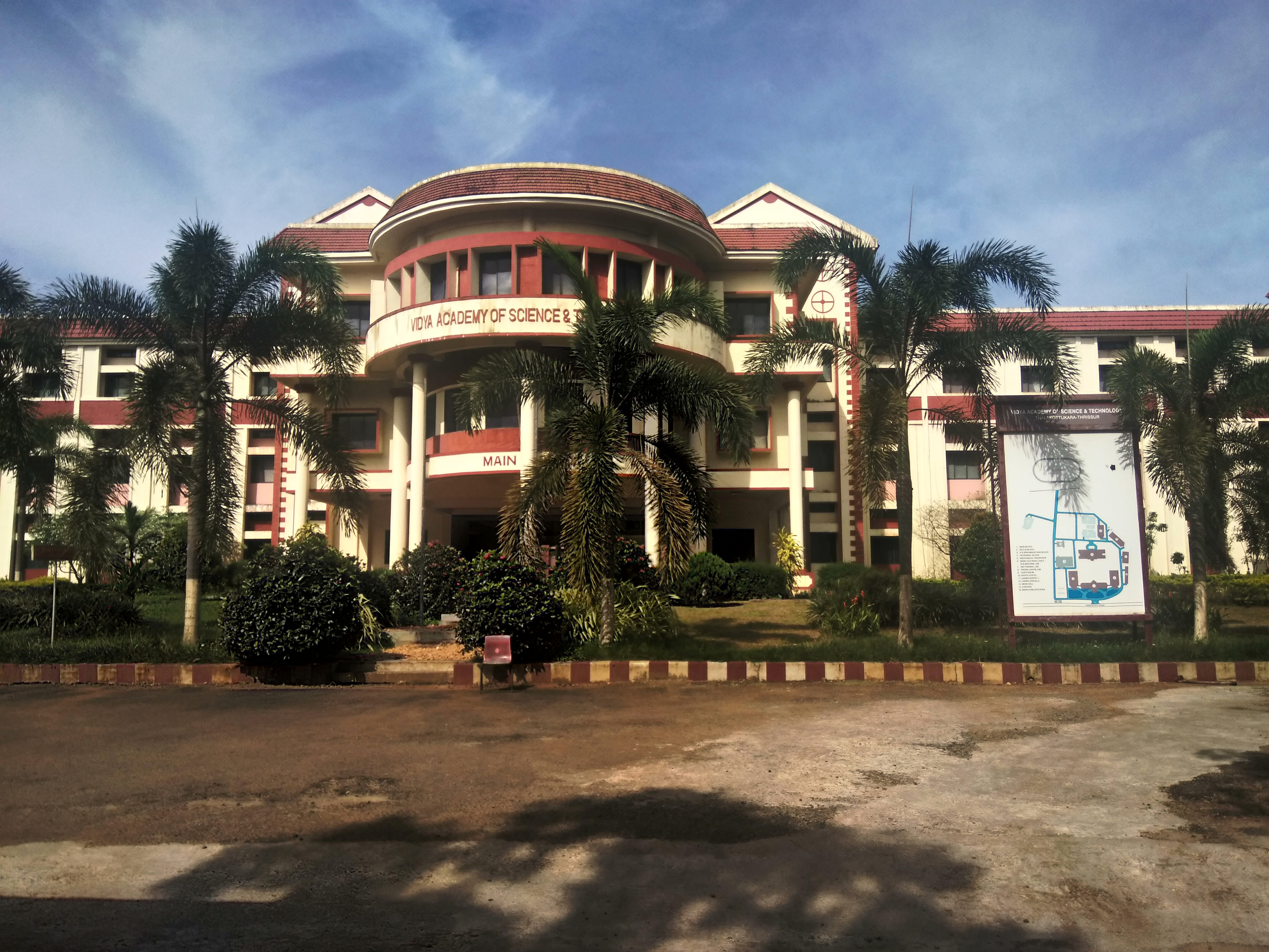 The front view of Vidya Academy of Science and Technology college main block